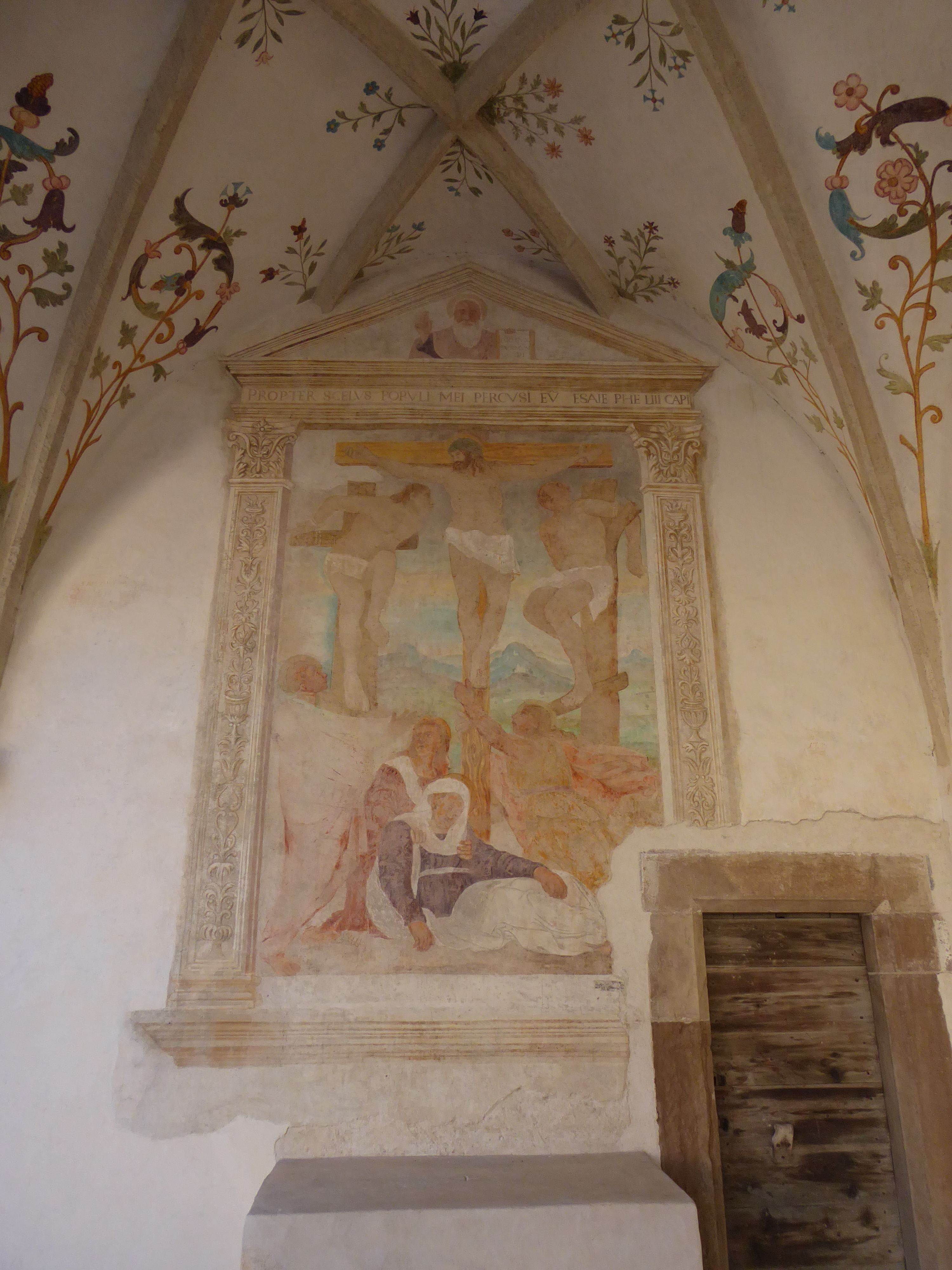 Varolo (Livo, Trentino, Italy) - Church of the Nativity of Mary - Fresco in the loggia